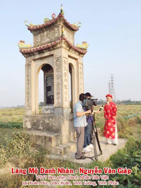 Lang mo Danh Nhan Nguyen Van Giap